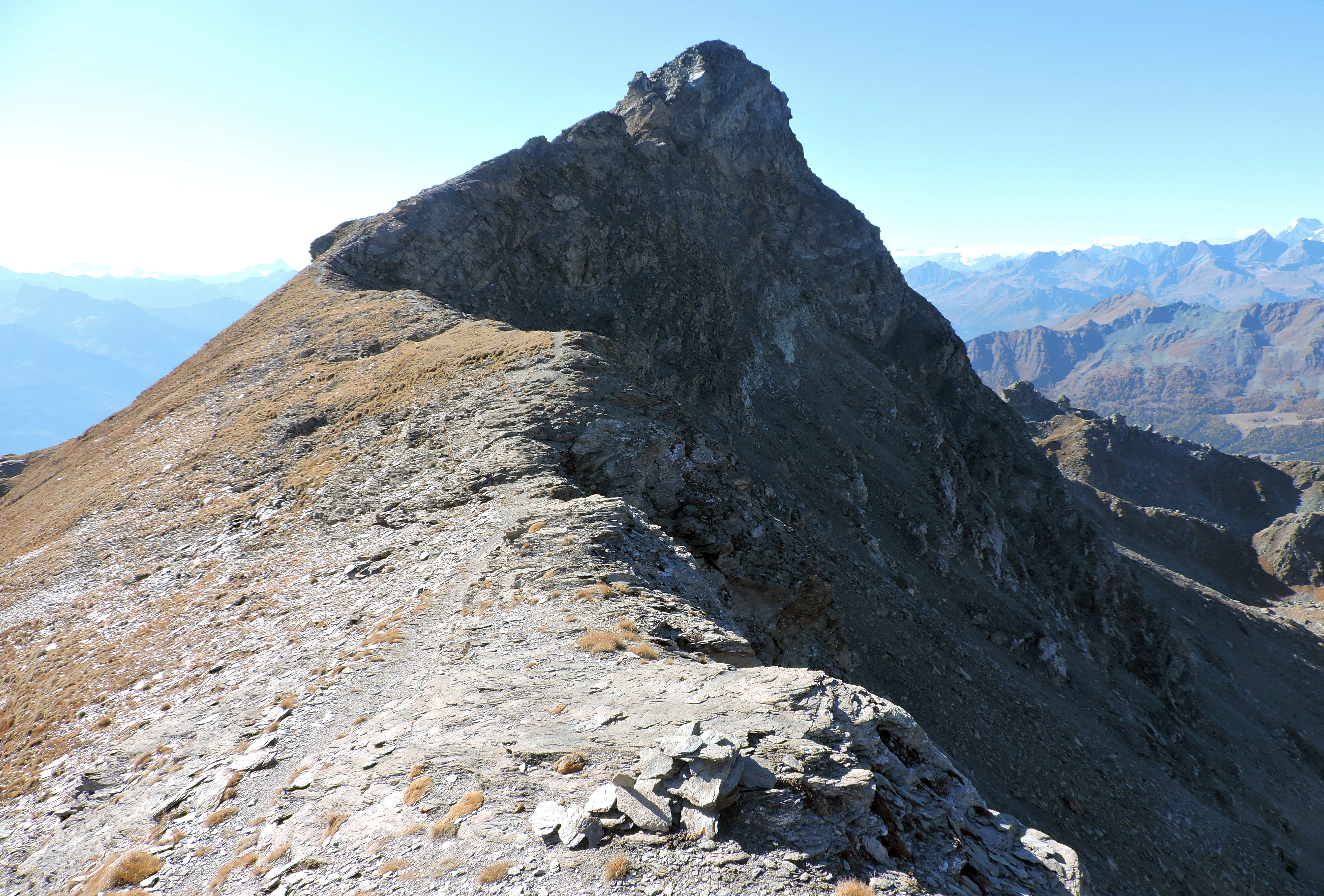 Corno Bussola (Aosta Valley, Italy) from East